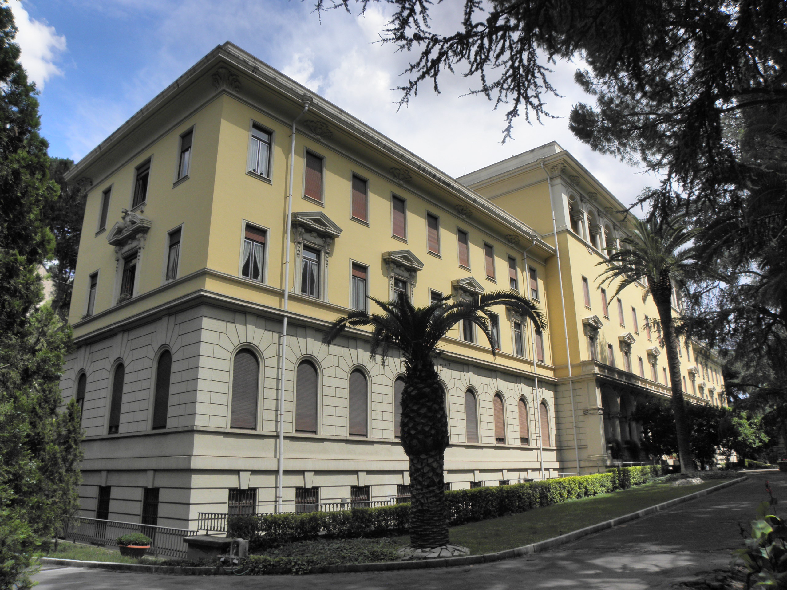 Nepomucenum